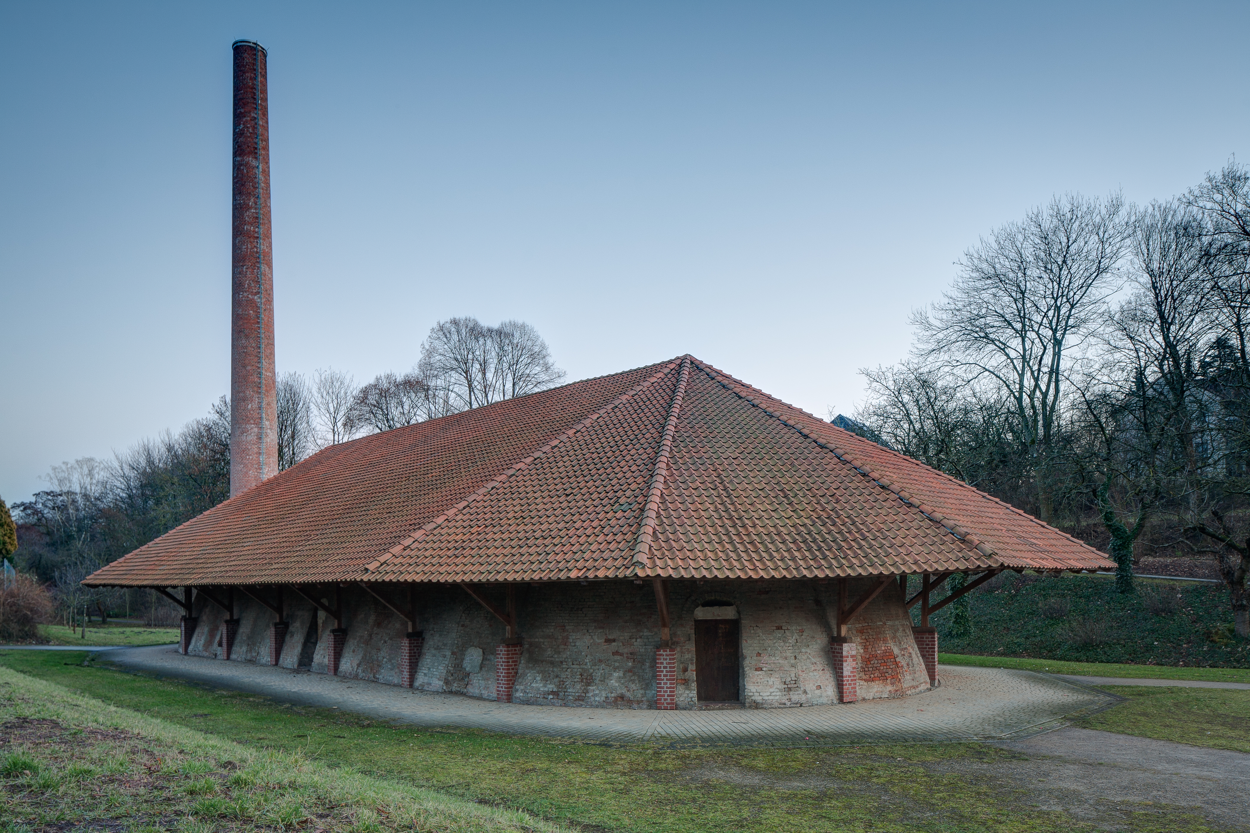 Historic lime kiln in the Willy Spahn park located in Hanover-Ahlem, Germany.